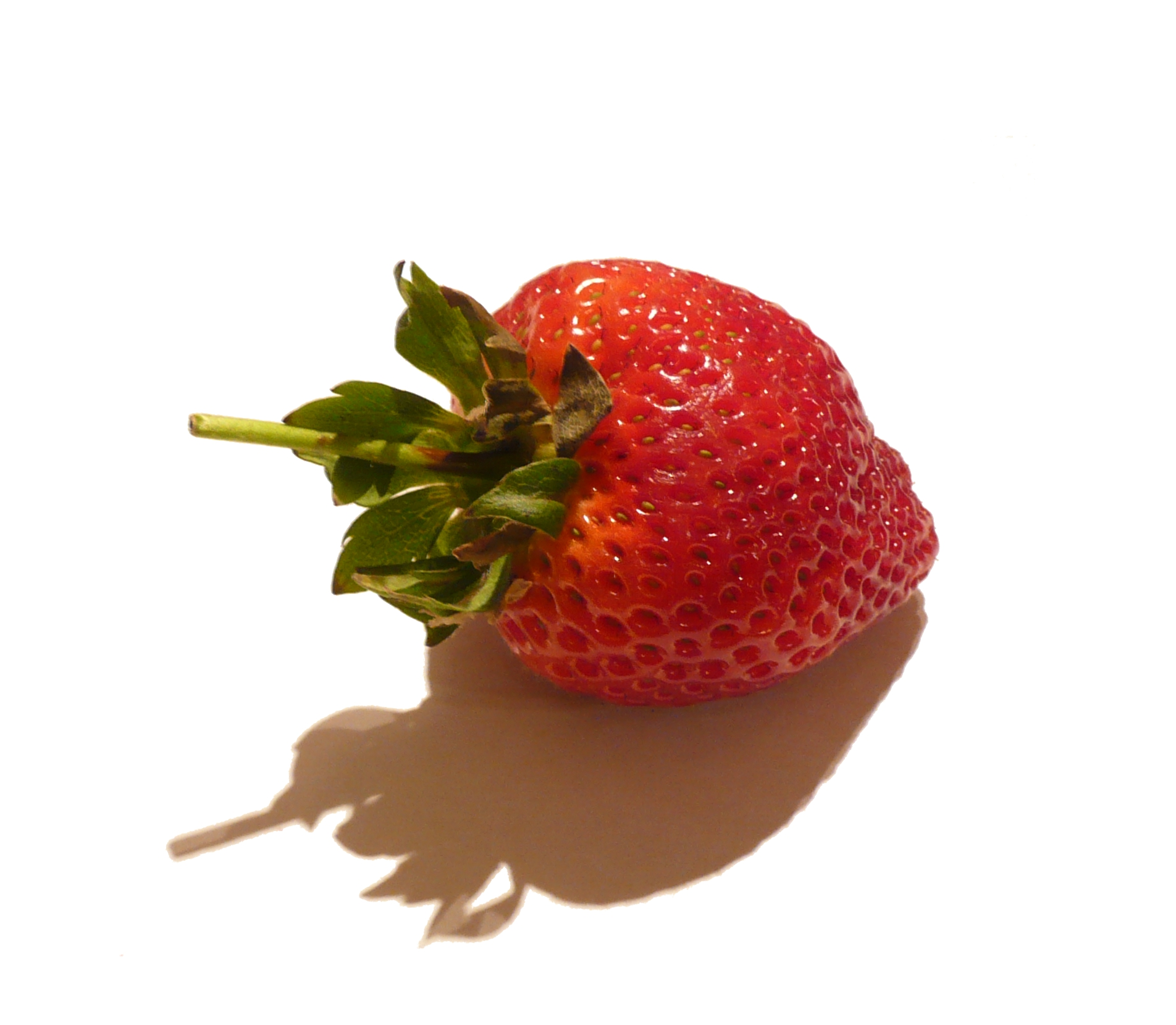 A home-grown Camarosa cultivar strawberry